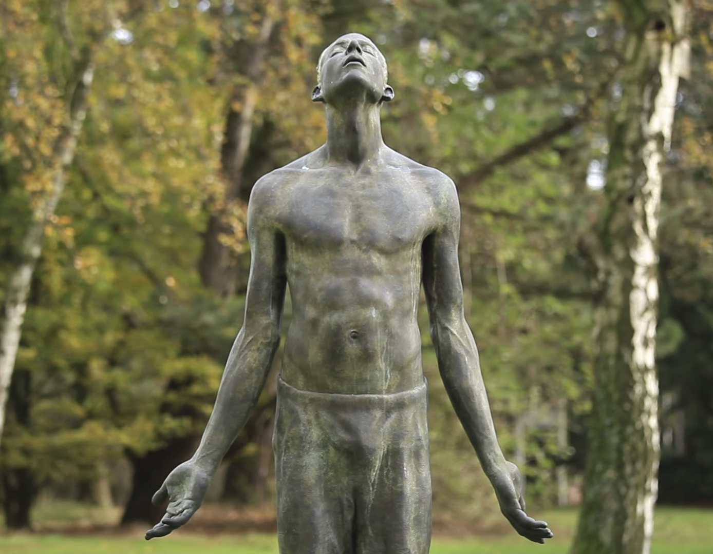 I am here now by Lotta Blokker